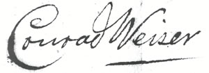 Signature of Conrad Weiser (1696-1760). Extracted from Pennsylvania's website reguarding Conrad Weiser